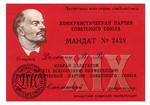 The mandate of delegate 19-th all-Union Conference Communist Party USSR, (1988)